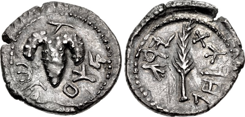 JUDAEA, Bar Kochba Revolt. 132-135 CE. AR Zuz – Denarius (18.5mm, 3.24 g, 1h). Undated, but attributed to year 3 (134/5 CE). Grape bunch on vine; “Shim‘on” in Hebrew around / Palm frond; “for the freedom of Jeru[salem]” in Hebrew around. Mildenberg 261.1 (O53/R176 – this coin); cf. Meshorer 281; cf. Hendin 1430; Bromberg 225 (same dies); Shoshana I 20442 (this coin); Sofaer –; Spaer –. VF, deeply toned, traces of undertype.